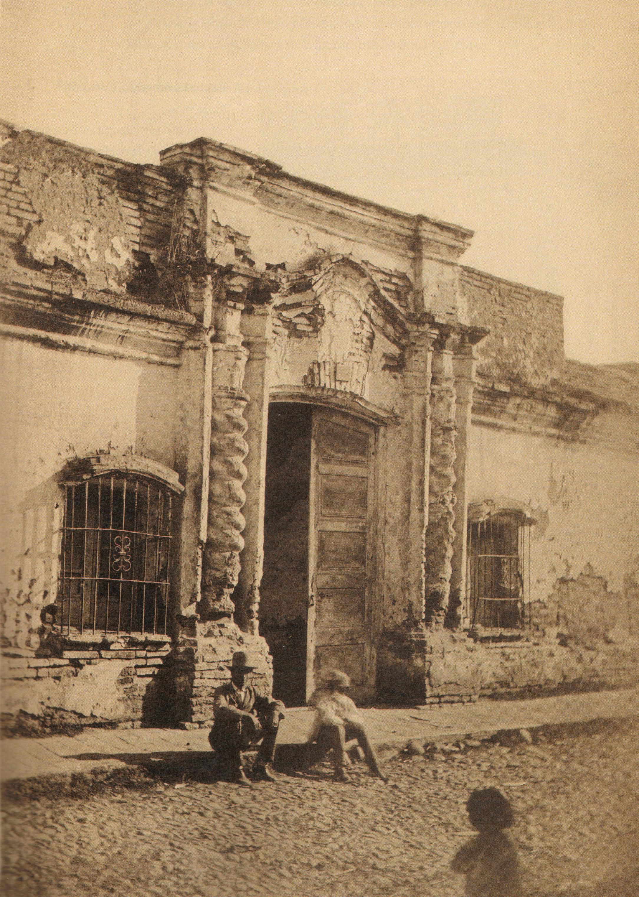 The Casa de Tucumán, before its restoration. In that house, the Independence of Argentina was declared.